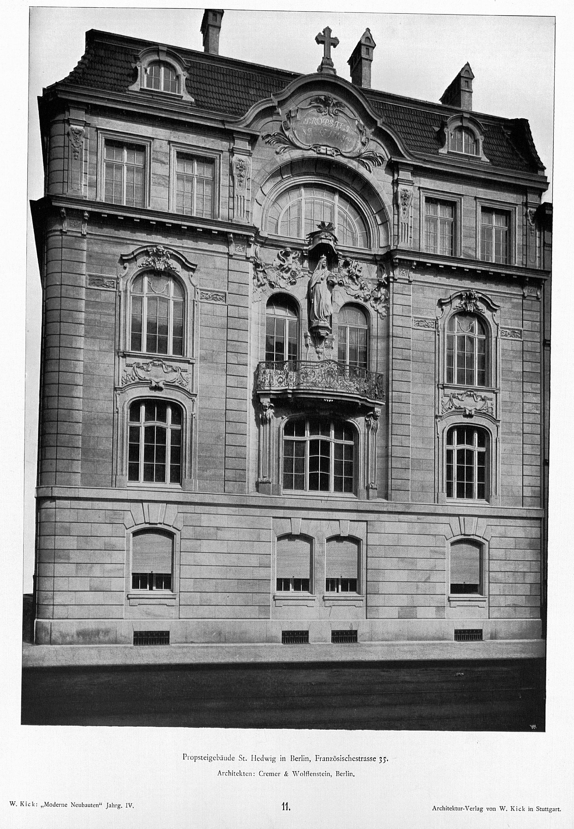 Propsteigebäude_St._Hedwig_in_Berlin_Französischestrasse_35_Architekten_Cremer_&_Wolffenstein_Berlin.JPG